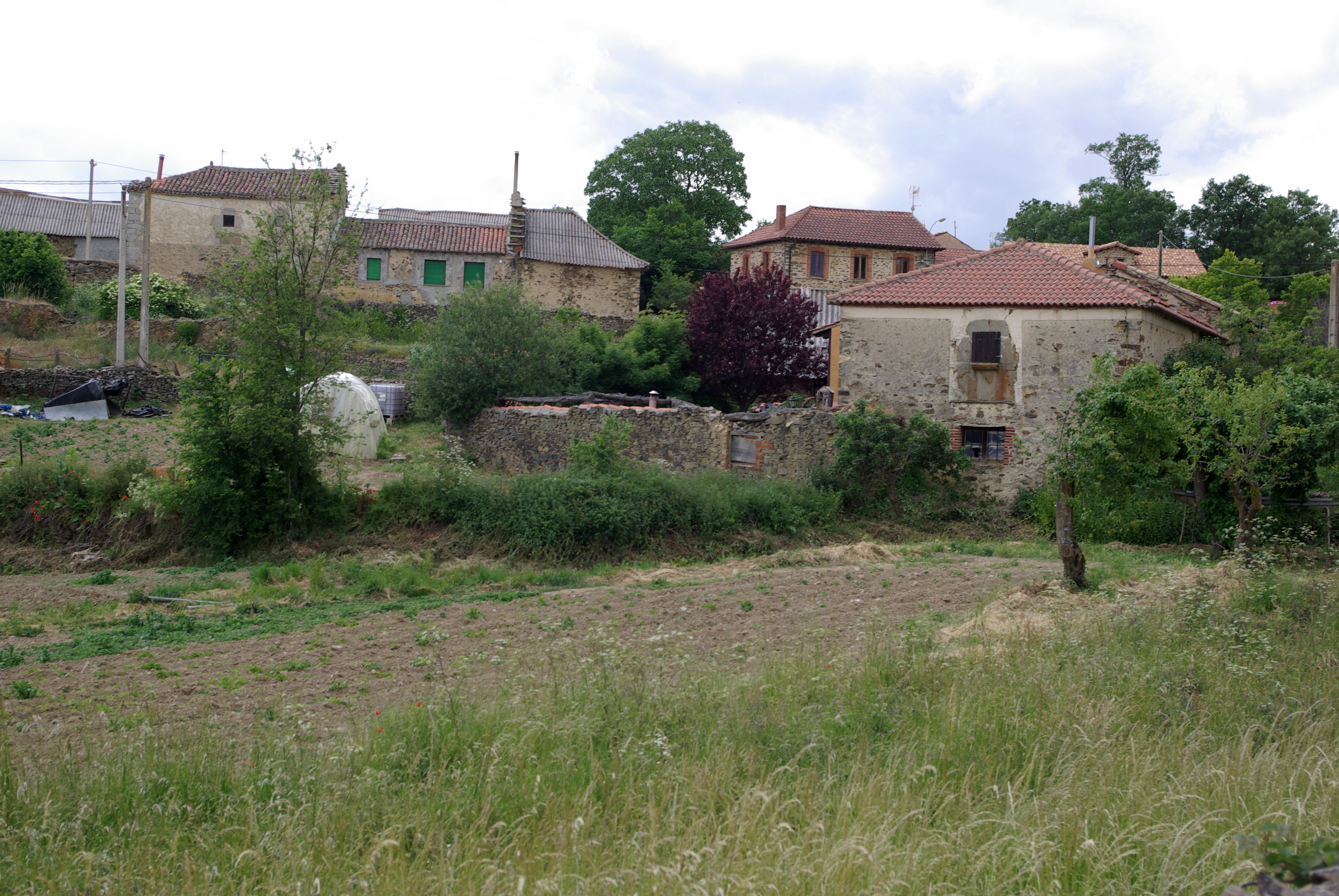 Bonella (Riello León, Spain).